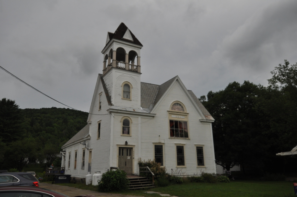 Waitsfield Village Historic District, Waitsfield, Vermont. Inactive? church.